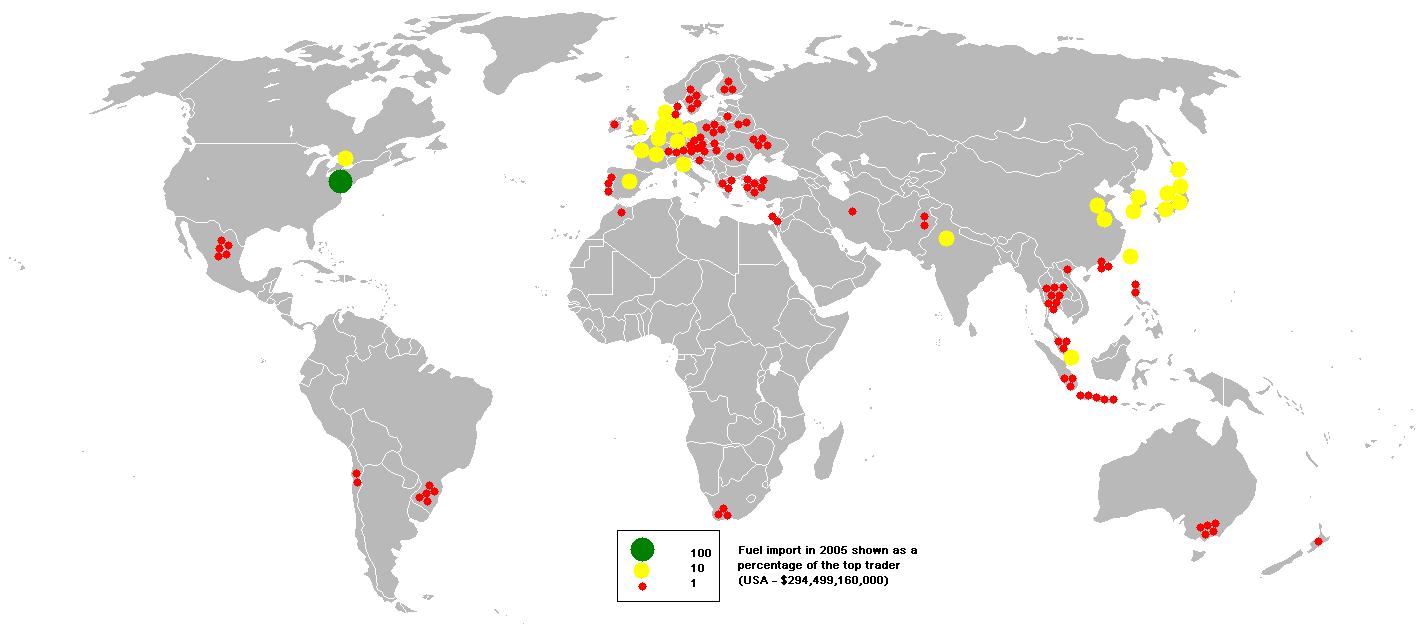 This bubble map shows the global distribution of fuel imports in 2005 as a percentage of the top trader (USA - $294,499,160,000). This map is consistent with incomplete set of data too as long as the top producer is known. It resolves the accessibility issues faced by colour-coded maps that may not be properly rendered in old computer screens. Data was extracted on 20th June 2007 from Based on :Image:BlankMap-World.png